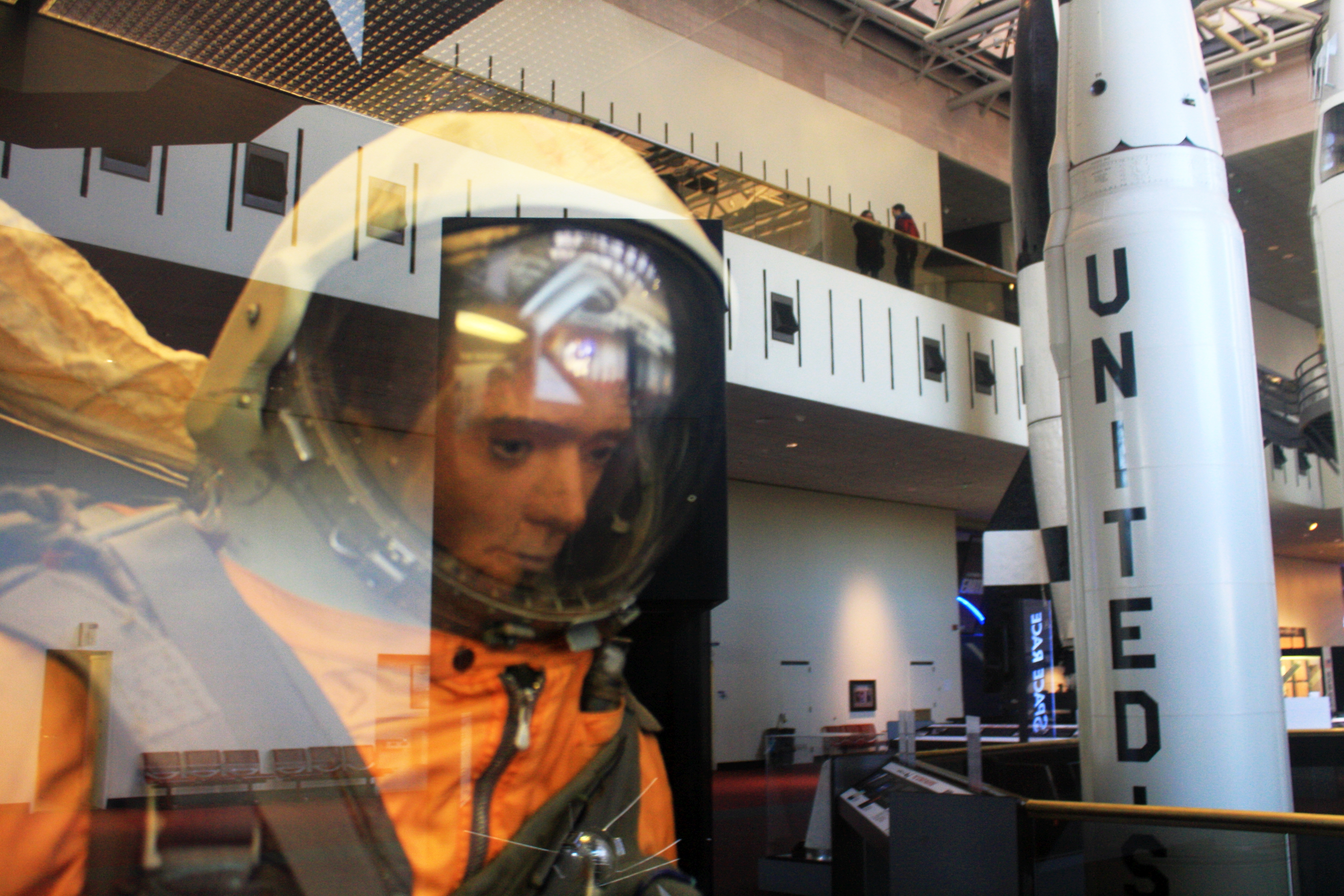 The Russian equivalent of John Doe (or Joe Bloggs), Ivan Ivanovich was a model used to test Gagarin's pressure suit. They wrote 'model' on the forehead in case anyone found him and thought him a dead astronaut.